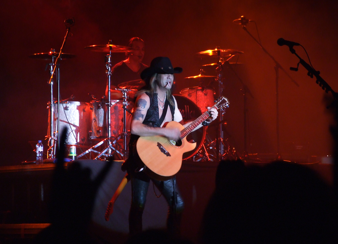 The American guitarist Jeff LaBar with Cinderella at Festivalna Hall in Sofia, Bulgaria.